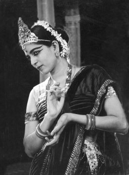 Legendary Bharatanatyam danseuse, Rukmini Devi Arundale. Taken in 1940 therefore Public Domain under Indian Copyright Law.